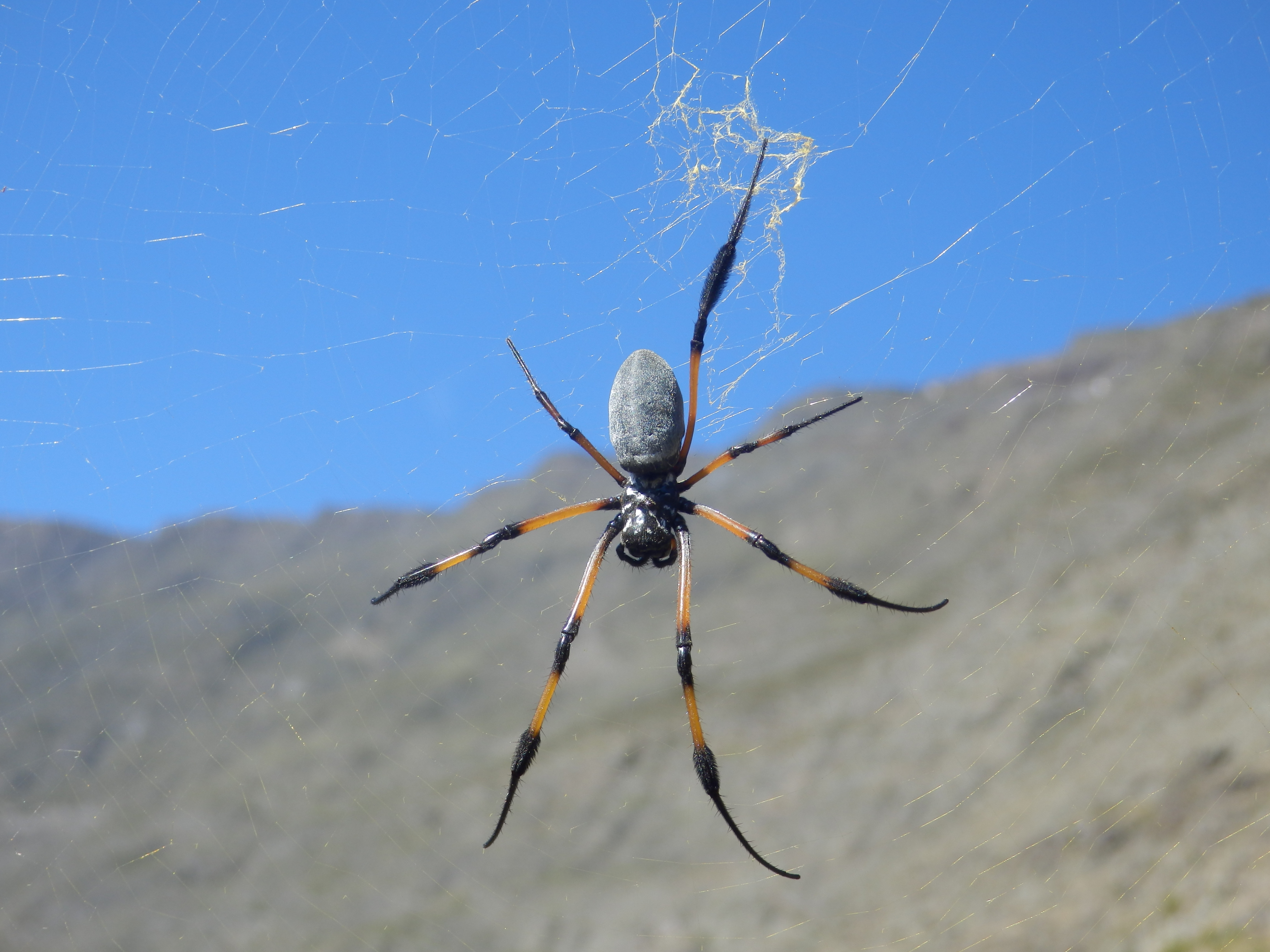 Nephila inaurata in Mafate, Réunion